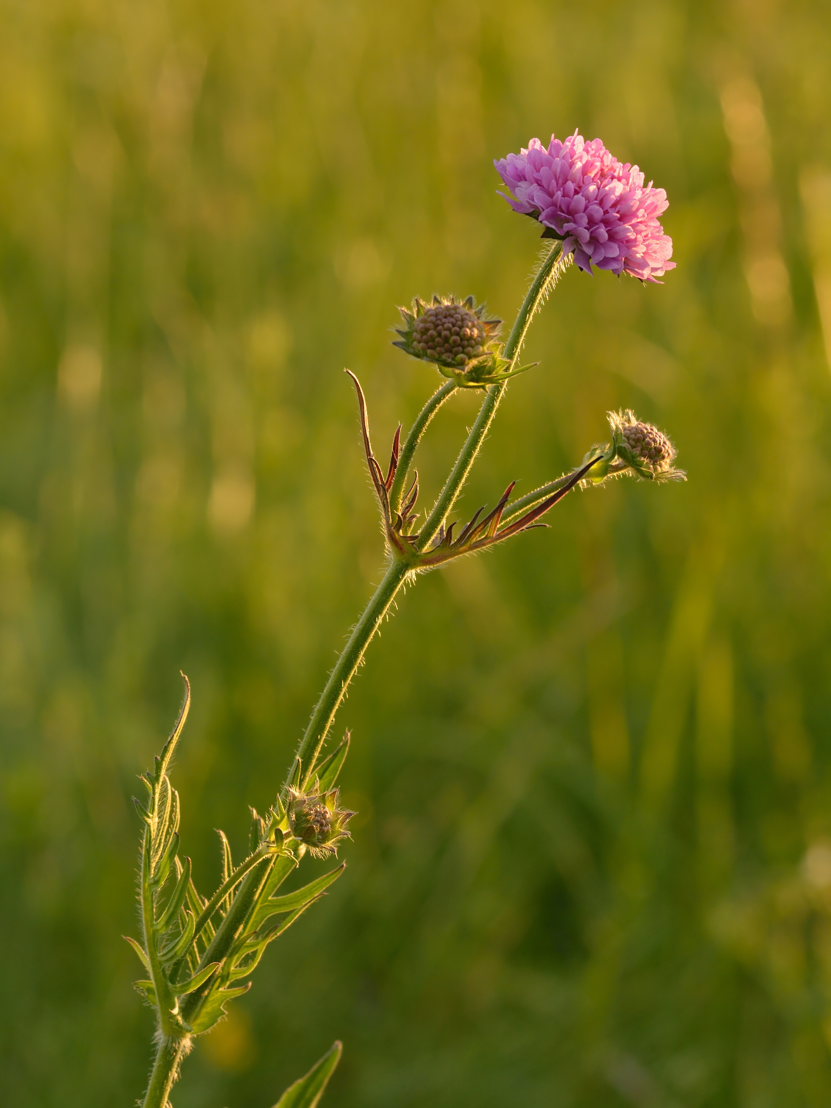 Field scabious (Knautia arvensis). Alvar (landform) in Keila, Northwestern Estonia.